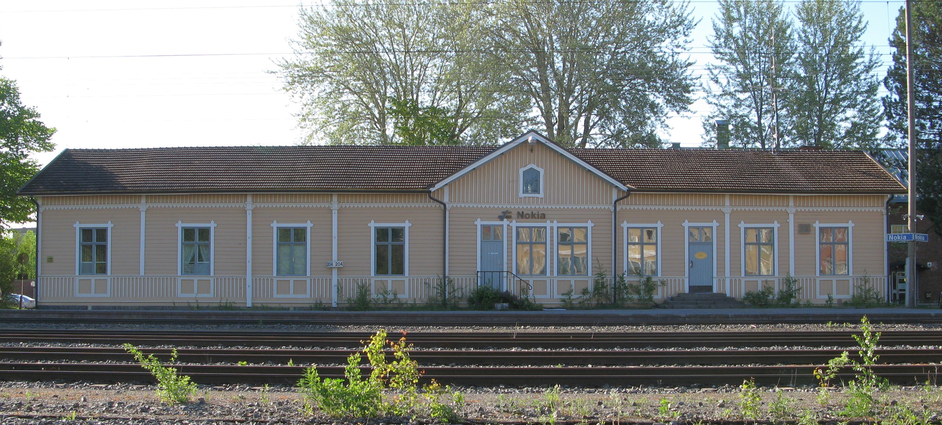 Nokia railway station in Pirkanmaa region, Finland. Nokia company's name is derived from its founding city Nokia. Nokia's railway station is still currently in use for passenger